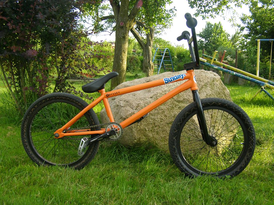 BMX Bike SUNDAY